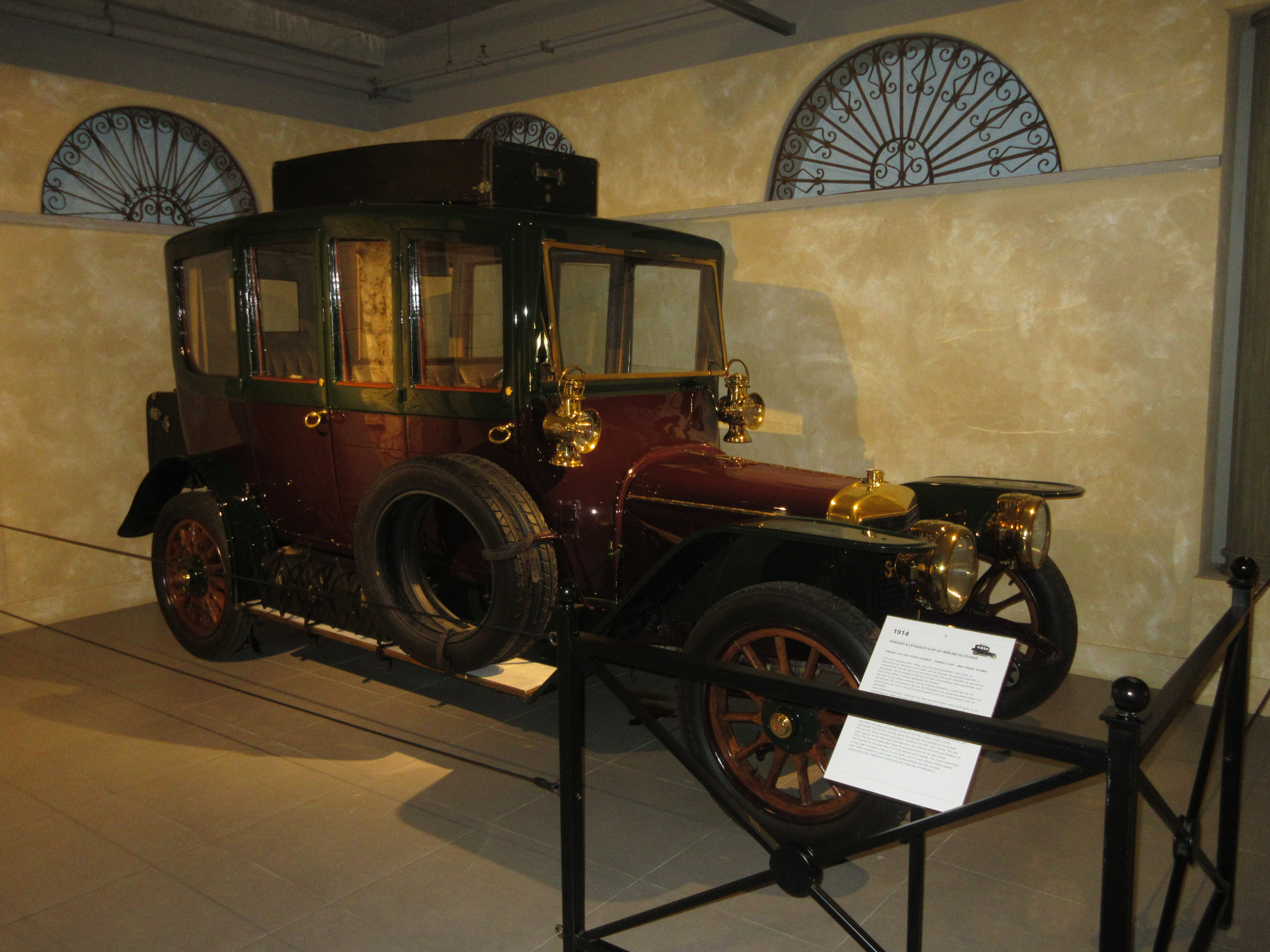 Subject: Panhard & Levassor X21 Author: Luc106 Date:April 5th, 2016 Place/Country: Louwman Museum, Den Haag (Nederlands) I release all rights in the public domain.